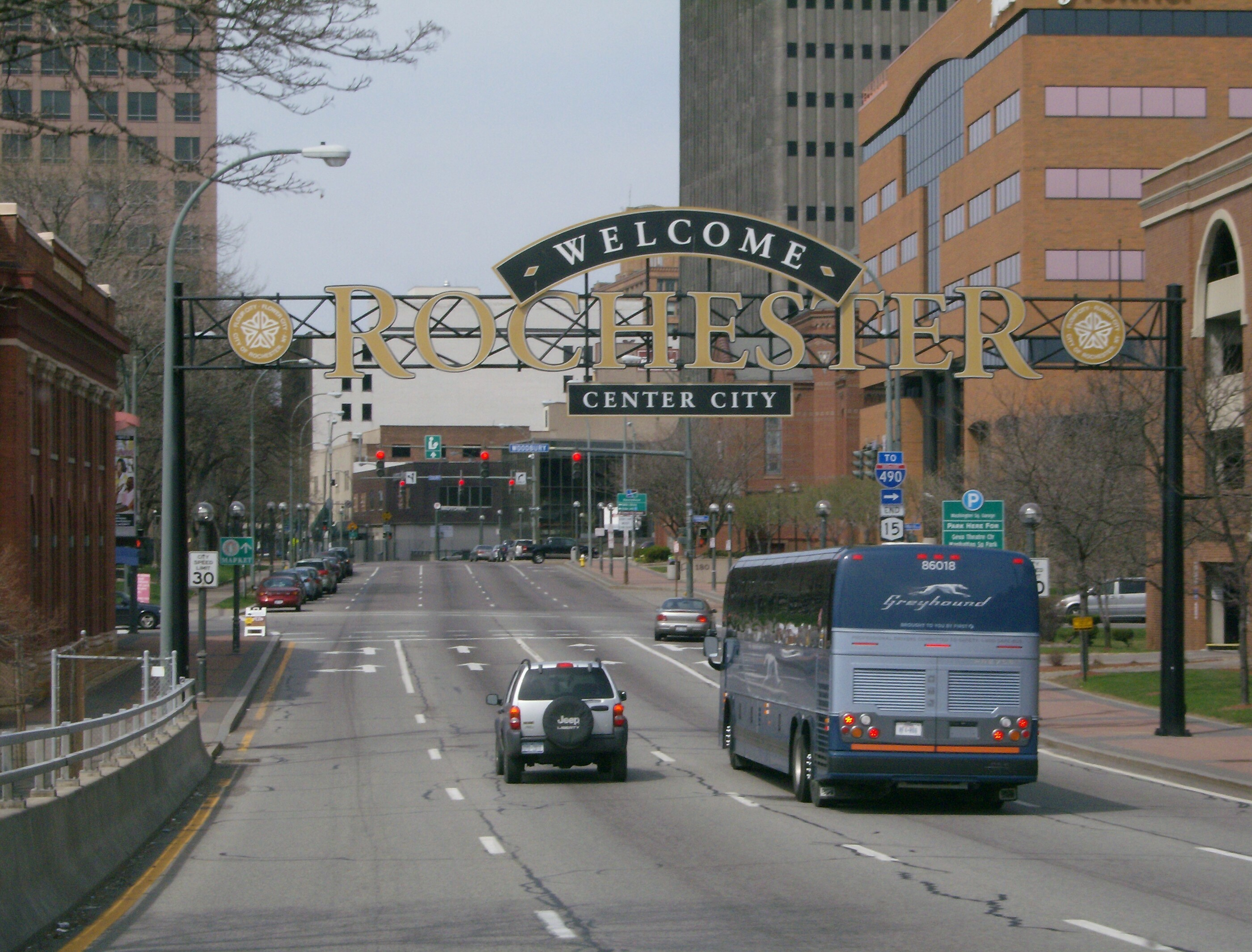 The northern terminus of New York State Route 15 at New York State Route 31 (Woodbury Boulevard) in downtown Rochester.